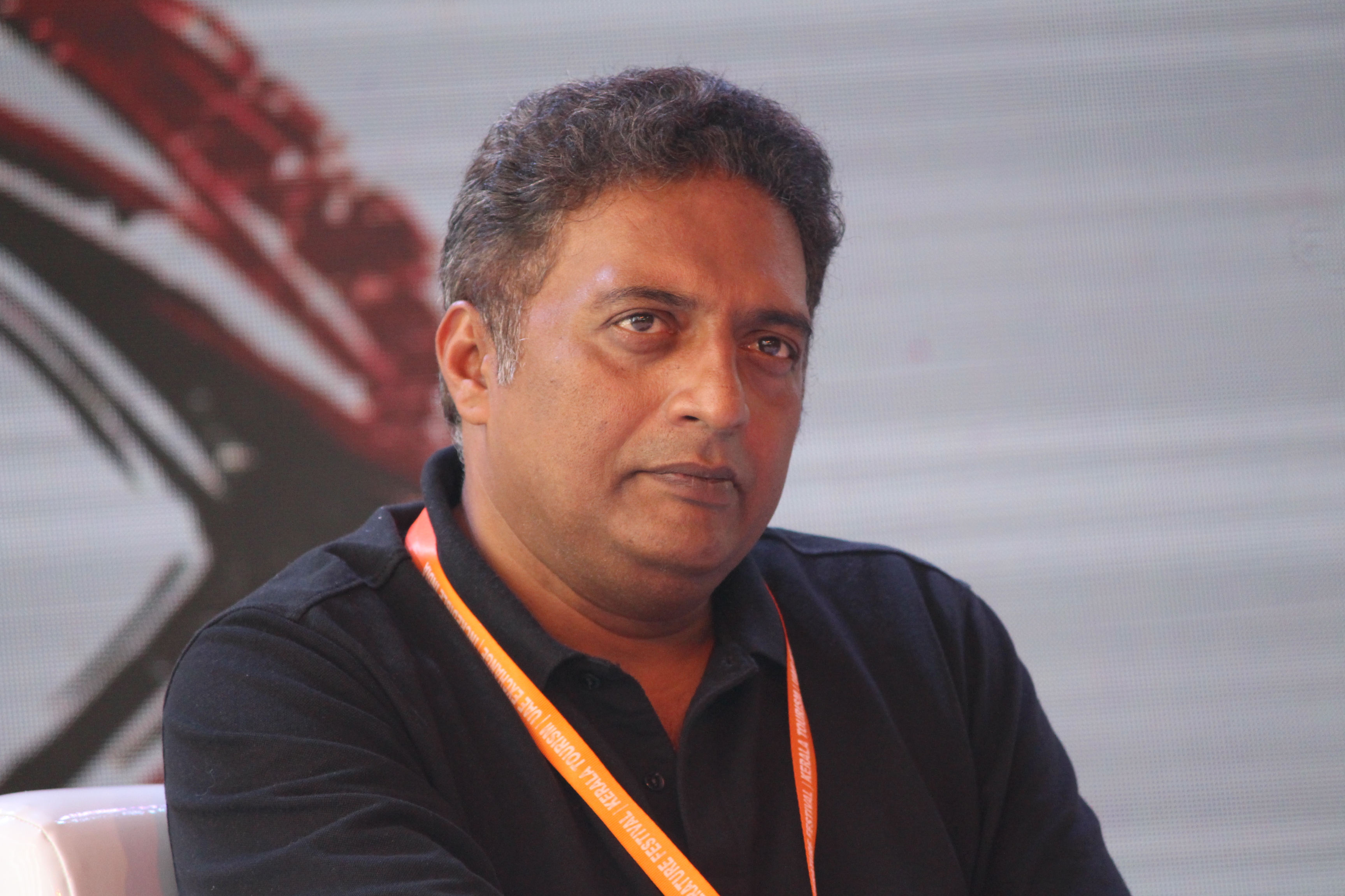 Prakash Raj at Kerala Literature Festival 2018 Kozhikode